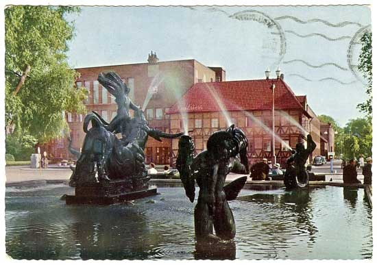 Europa och Tjuren av Carl Milles, Halmstad, Sverige.